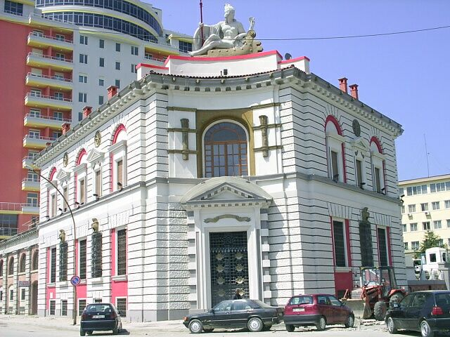 Town of Durrës Albania